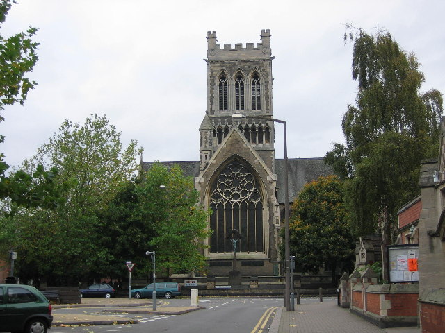 Church near the Town Hall. This splendid church is near the civic centre along with the Victorian town hall.